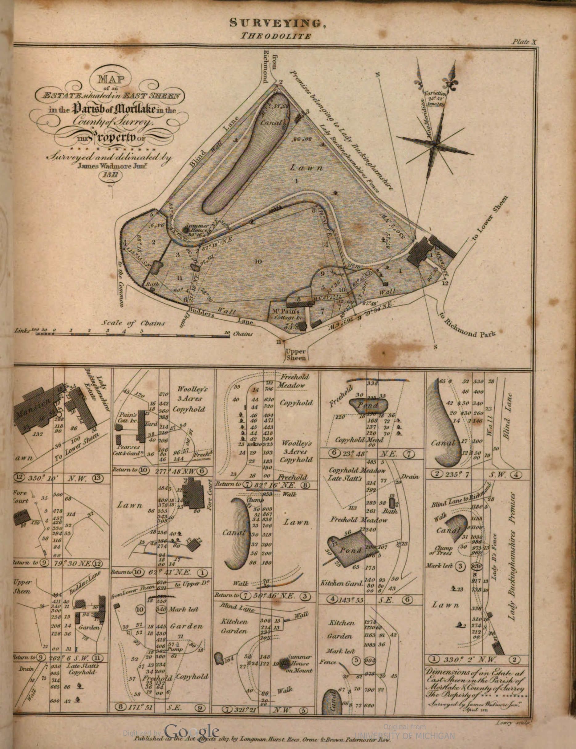 The 1811 survey is of an estate in East Sheen, then in Surrey. Although the name of the owner of the property has been blurred, the words "Rev W Pearson" have the same number of letters and spacing. He bought the property in 1810 and founded Temple Grove School on the site.